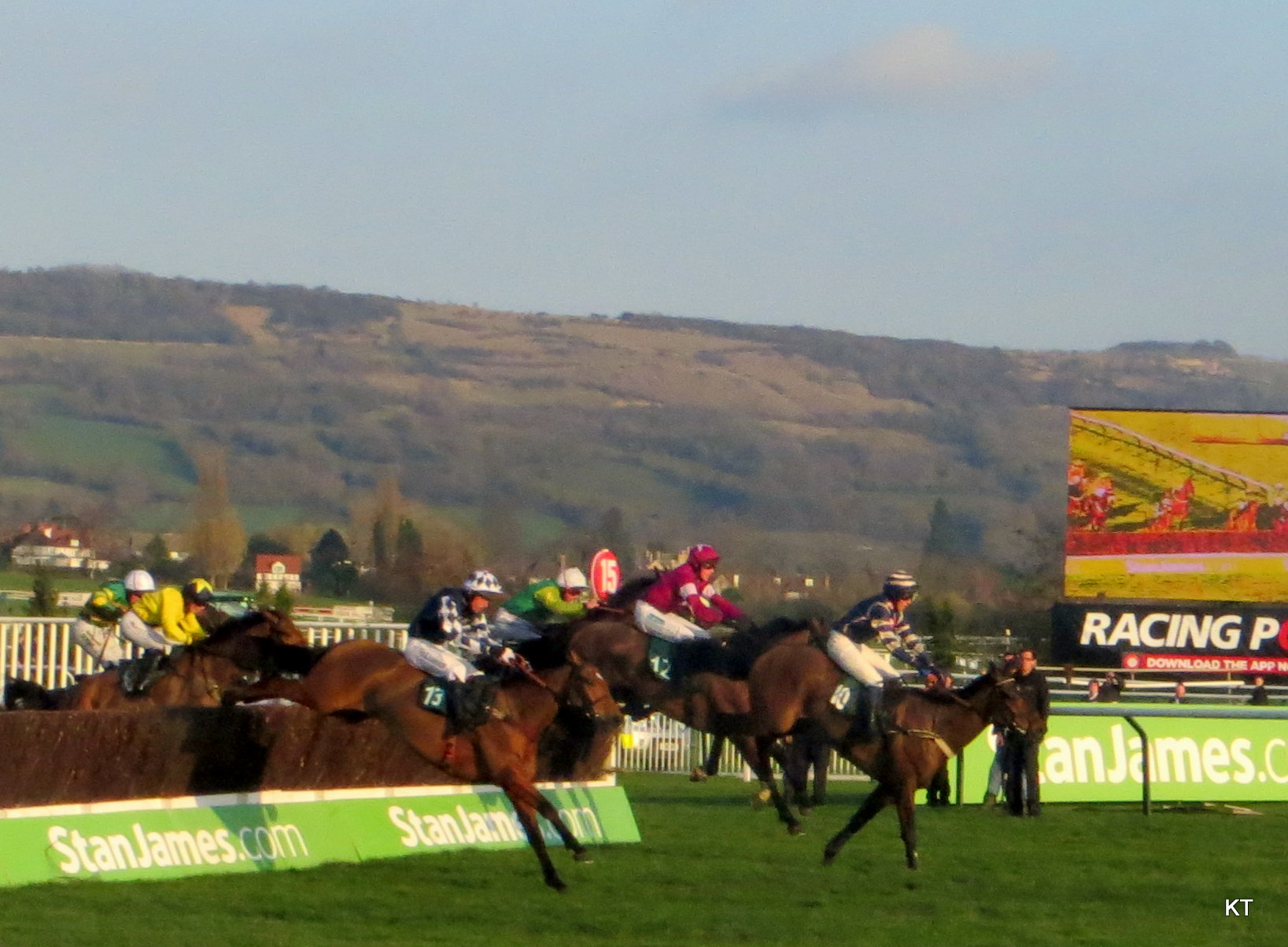 National Hunt Chase